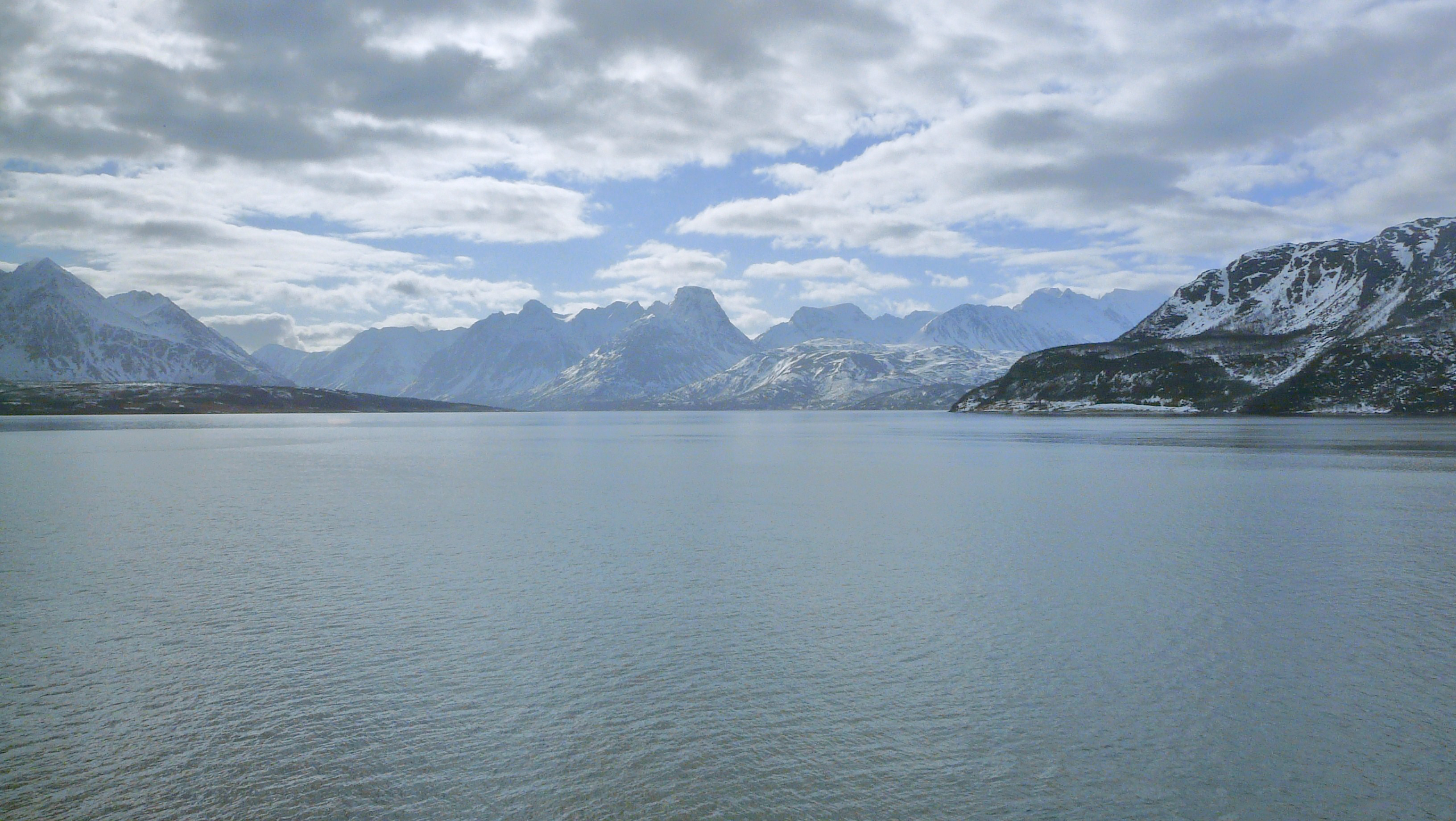 A view to Ullsfjorden towards south as seen from a ferry crossing the fjord from Breivikeidet to Svensby. Picture has been taken in 2009 May.